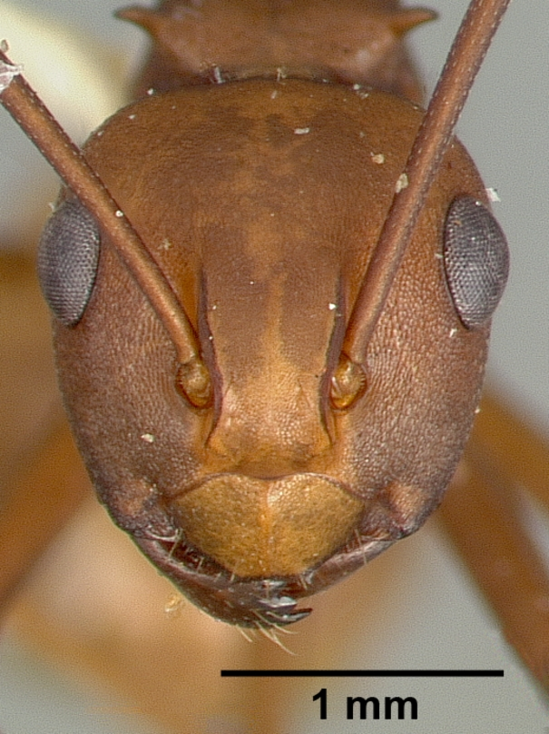 Head view of ant Polyrhachis abnormis specimen castype06960.